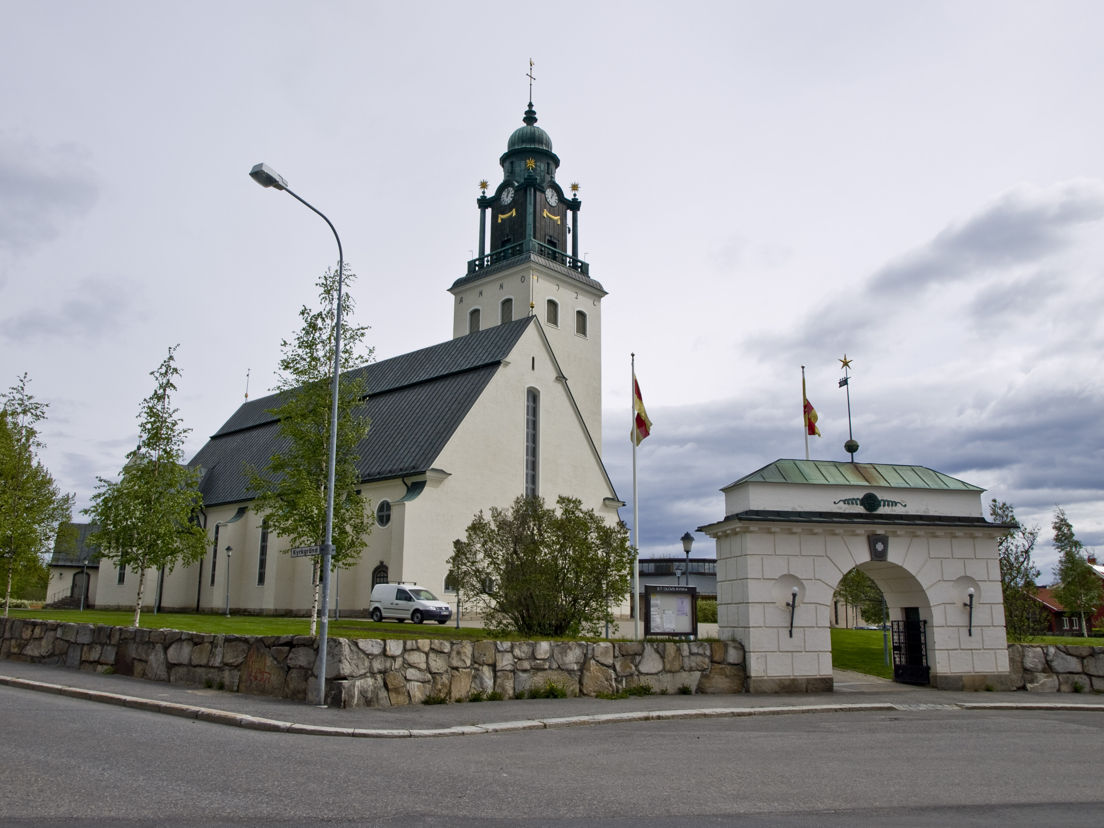 A shot of Sankt Olovs församling in Skellefteå, Sweden.